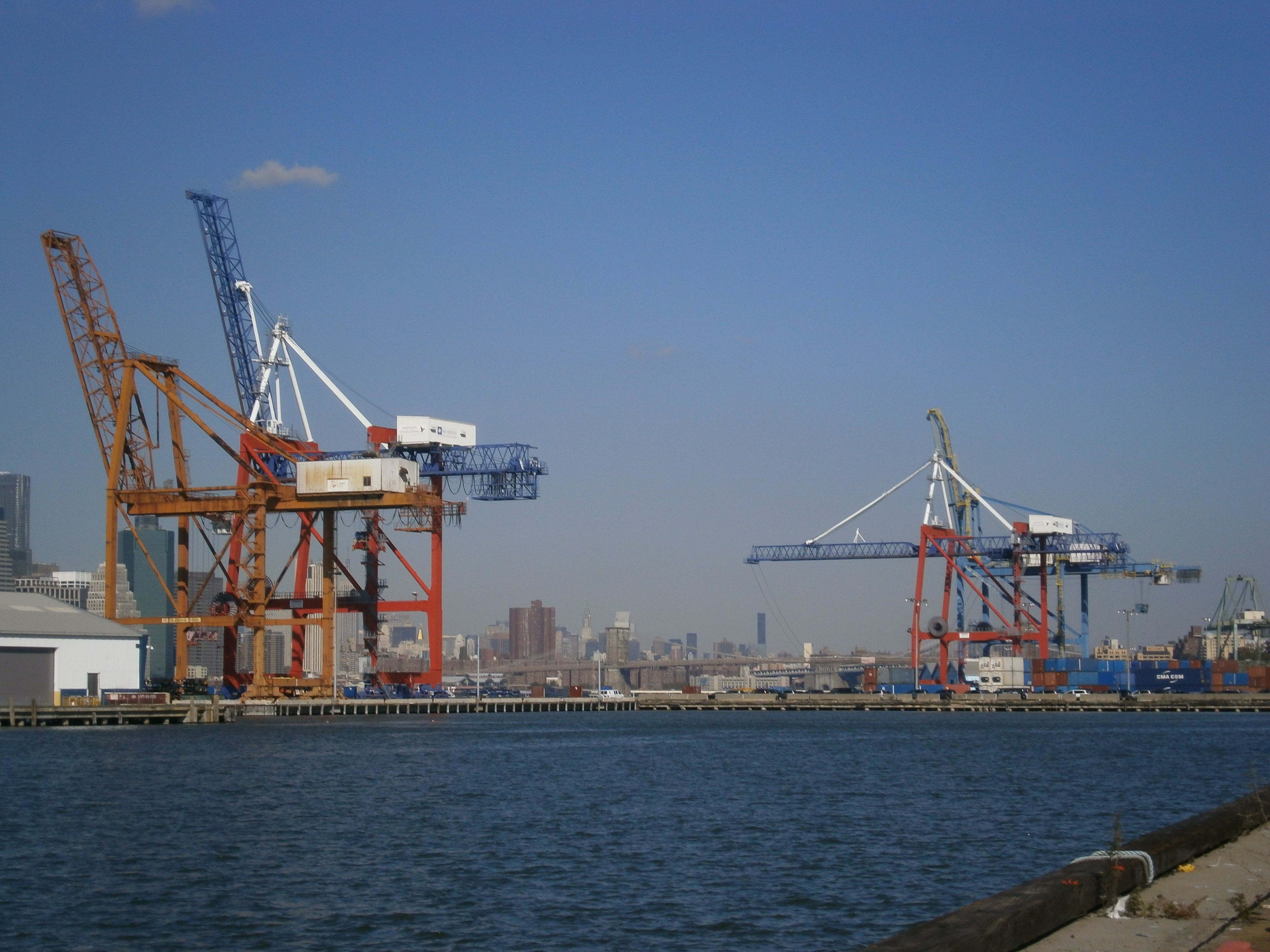 RedHookTerminal